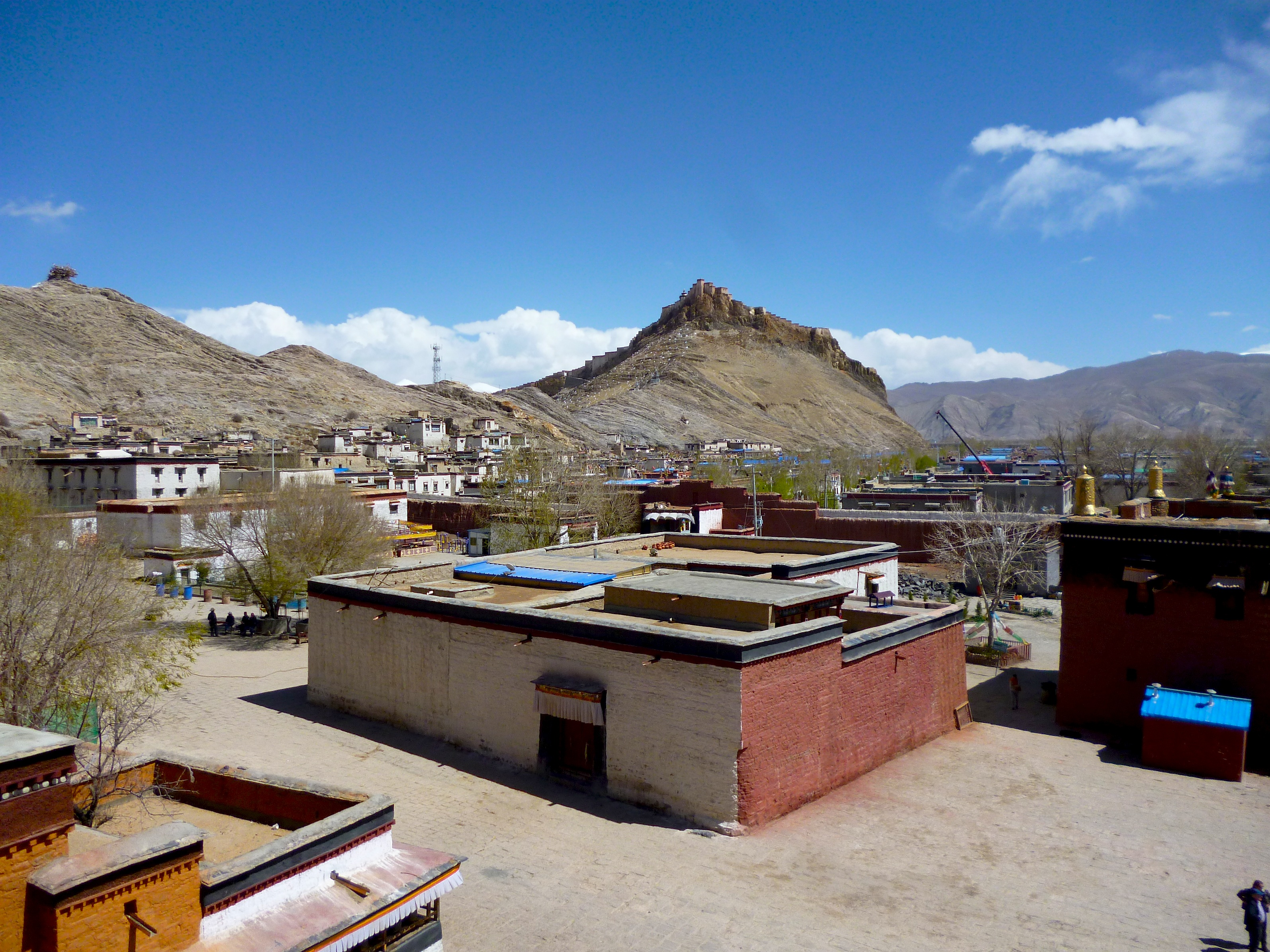 View over old-town of Gyanze towards the Gyangze Dzong